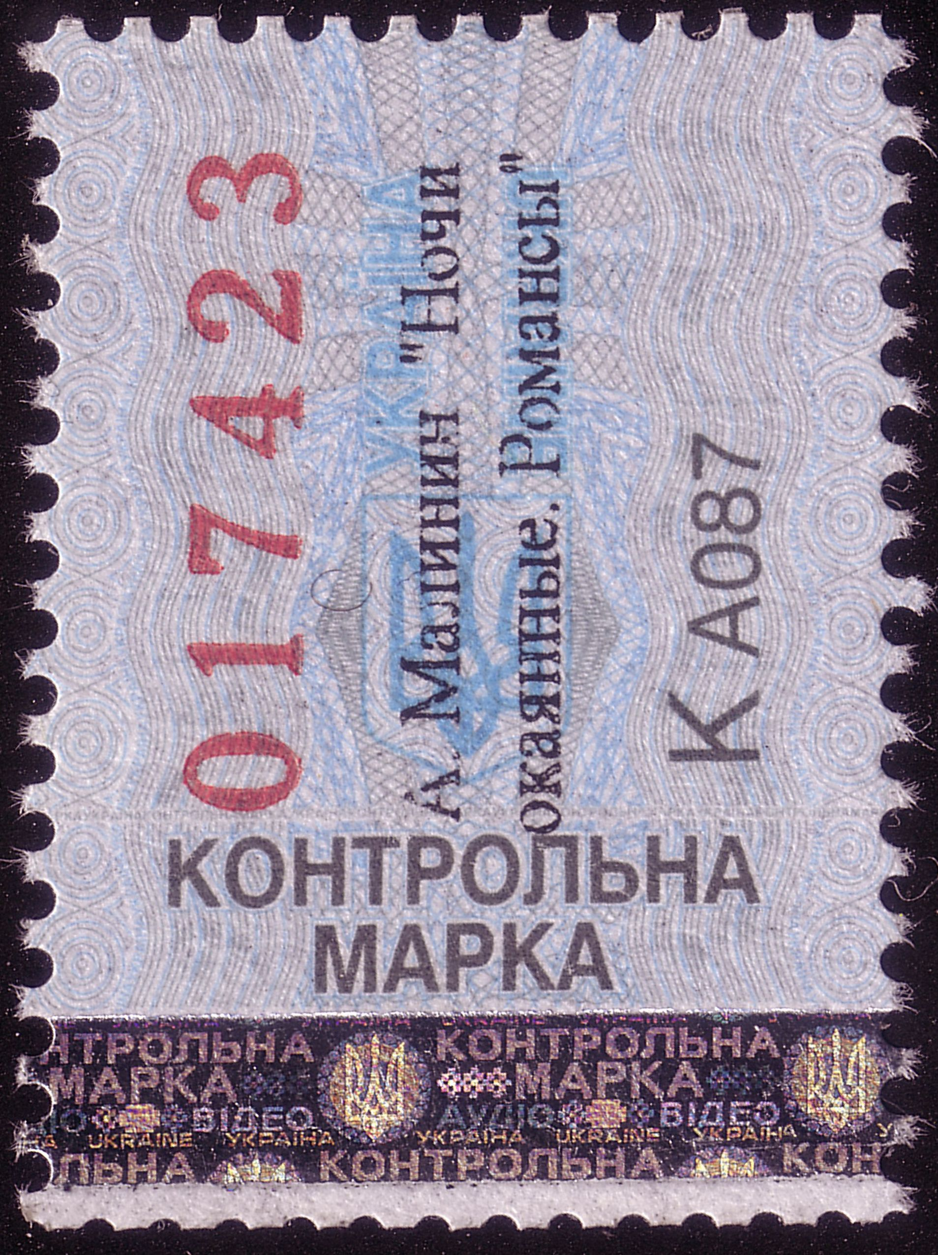 Excise stamp of Ukraine, 1997?